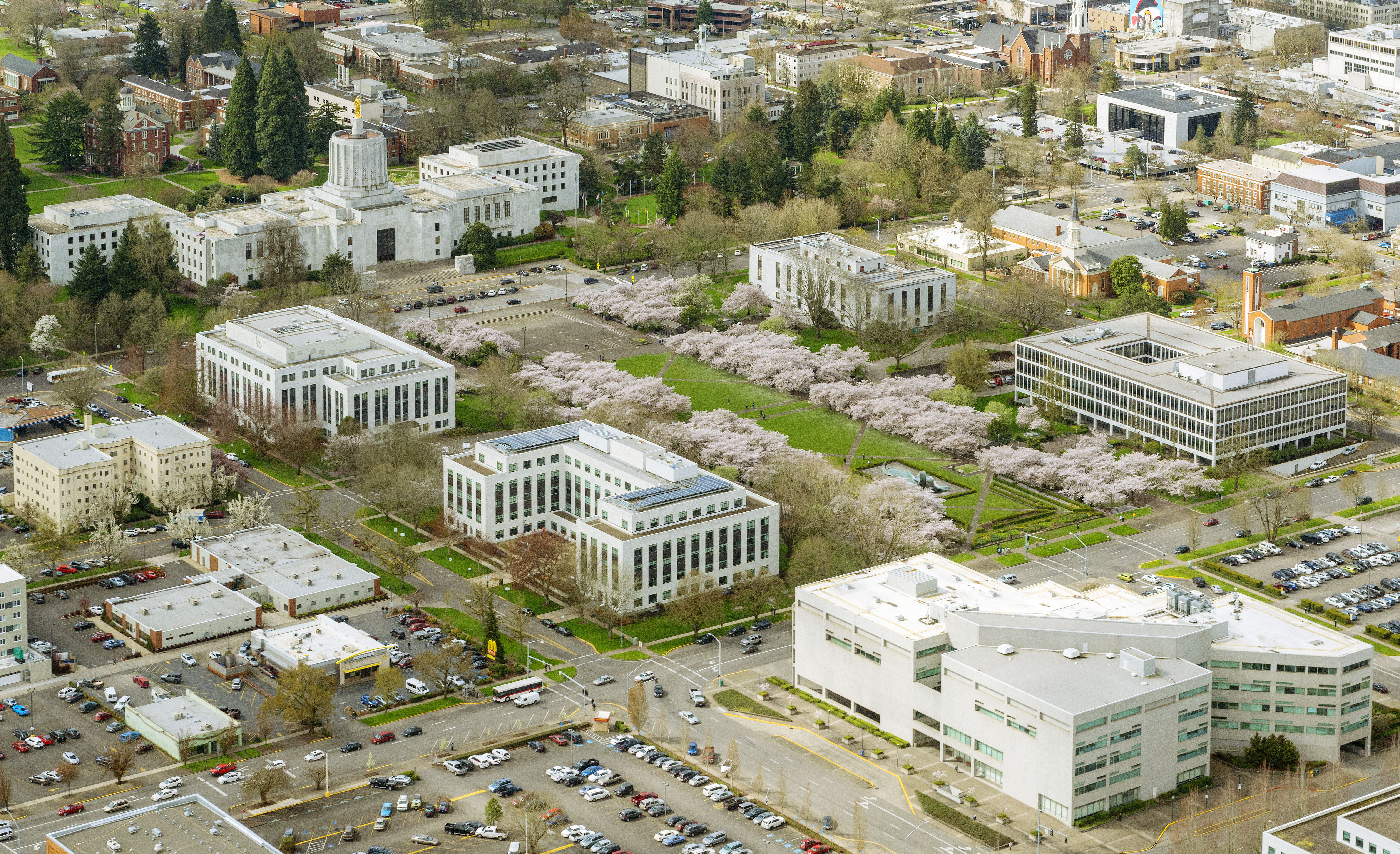 Our aerial photographer flew over Salem and gave us these stunning photos.